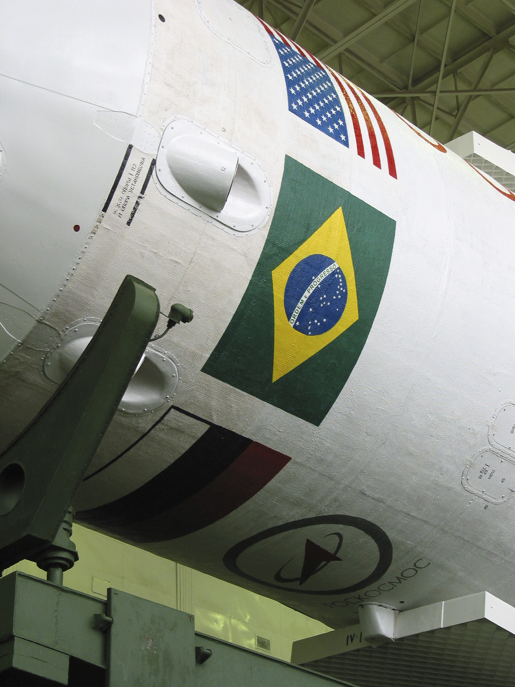 The Soyuz TMA-8 capsule was mated Monday, March 27, 2006, to its booster in preparation for the launch on March 30, 2006 carrying Expedition 13 crew members, Jeffrey N. Williams, Science Officer and Flight Engineer; Pavel V. Vinogradov, Russia's Federal Space Agency International Space Station Commander; and Marcos Pontes, Brazilian Space Agency Soyuz crew member. Baikonur Cosmodrome in Baikonur, Kazakhstan. Photo Credit: (NASA/Victor Zelentsov)